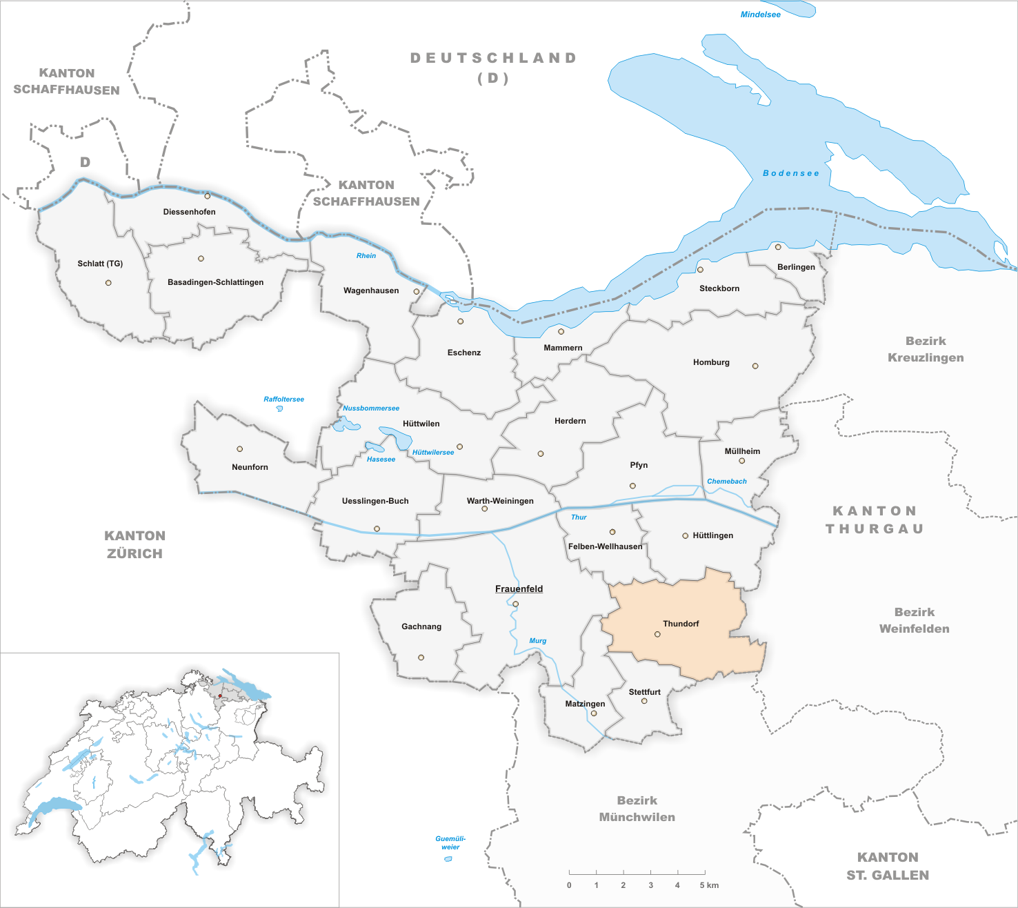 Municipality Thundorf